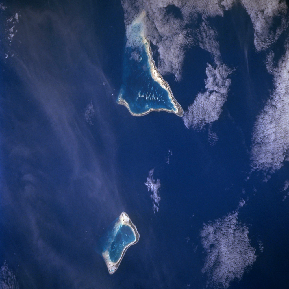 Astronaut photo of Tarawa (upper island) and Maiana, two of the Gilbert Islands, Republic of Kiribati.